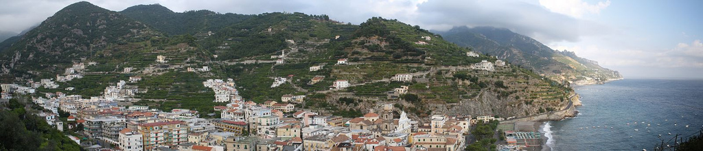 Town of Minori on the Amalfi Coast, Italy.